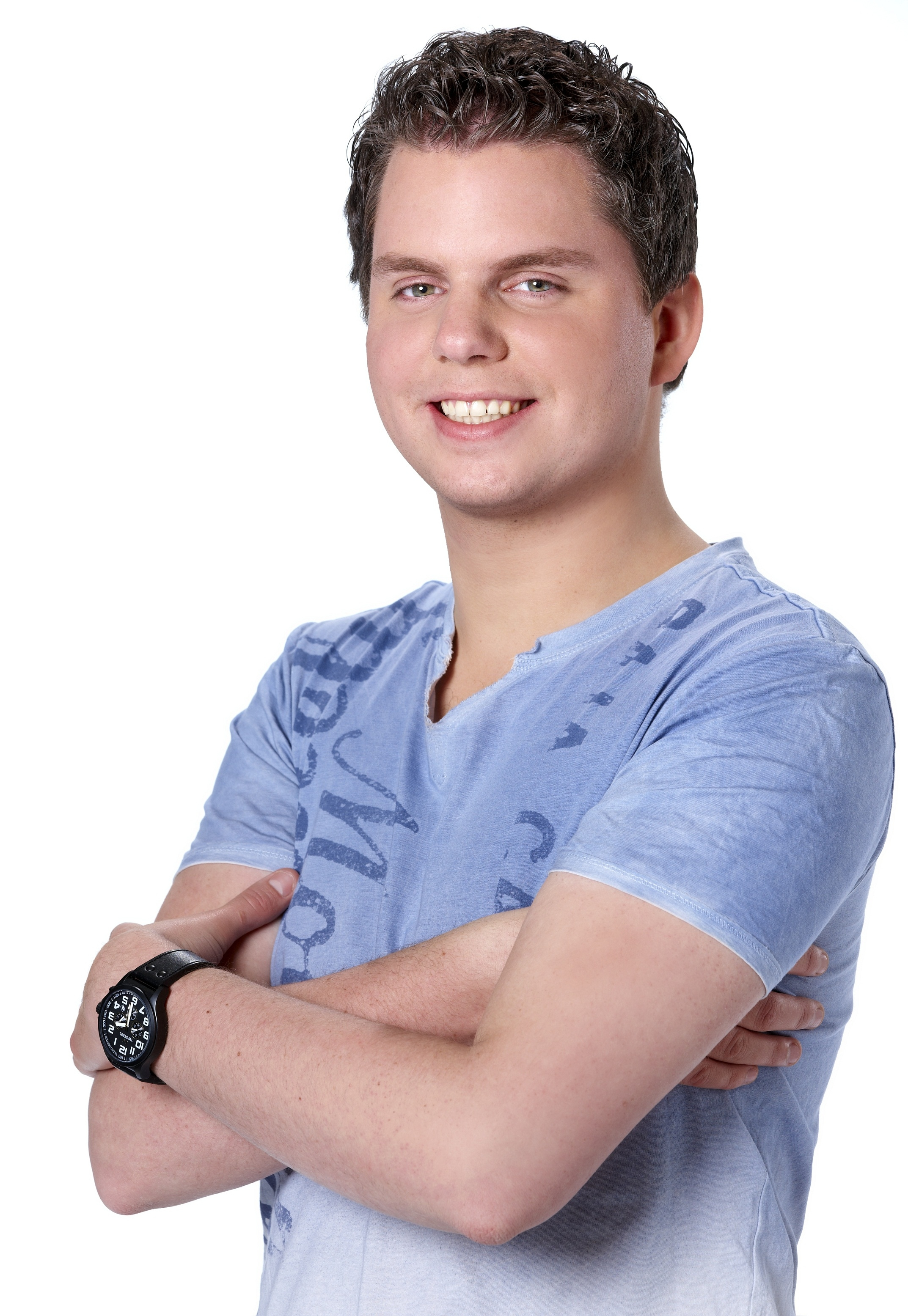 Edwin Noorlander, Dutch dj